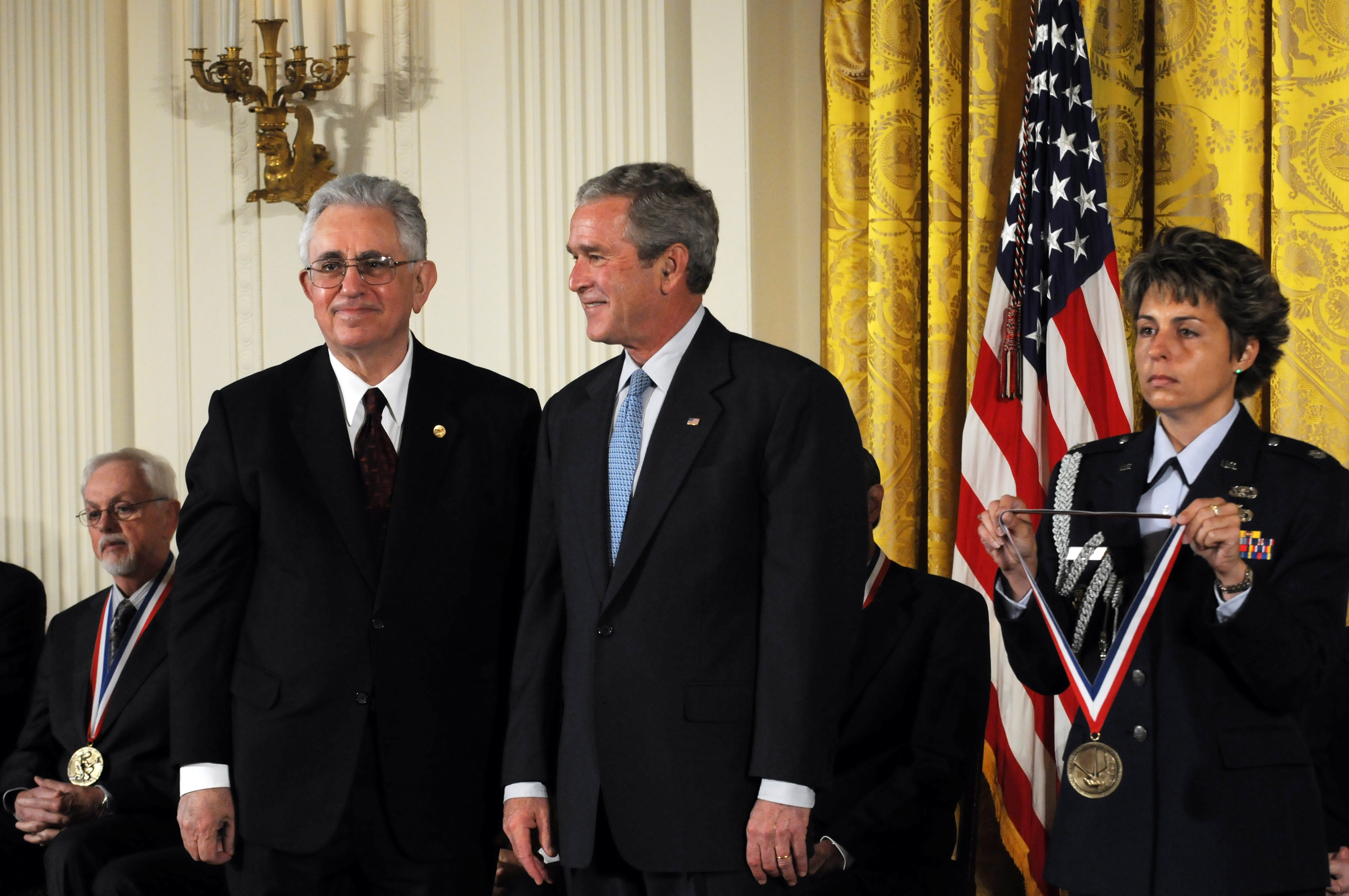 President George W. Bush confers the 2007 National Medal of Technology and Innovation upon Prof. Adam Heller of the University of Texas at Austin at a ceremony in 2008.